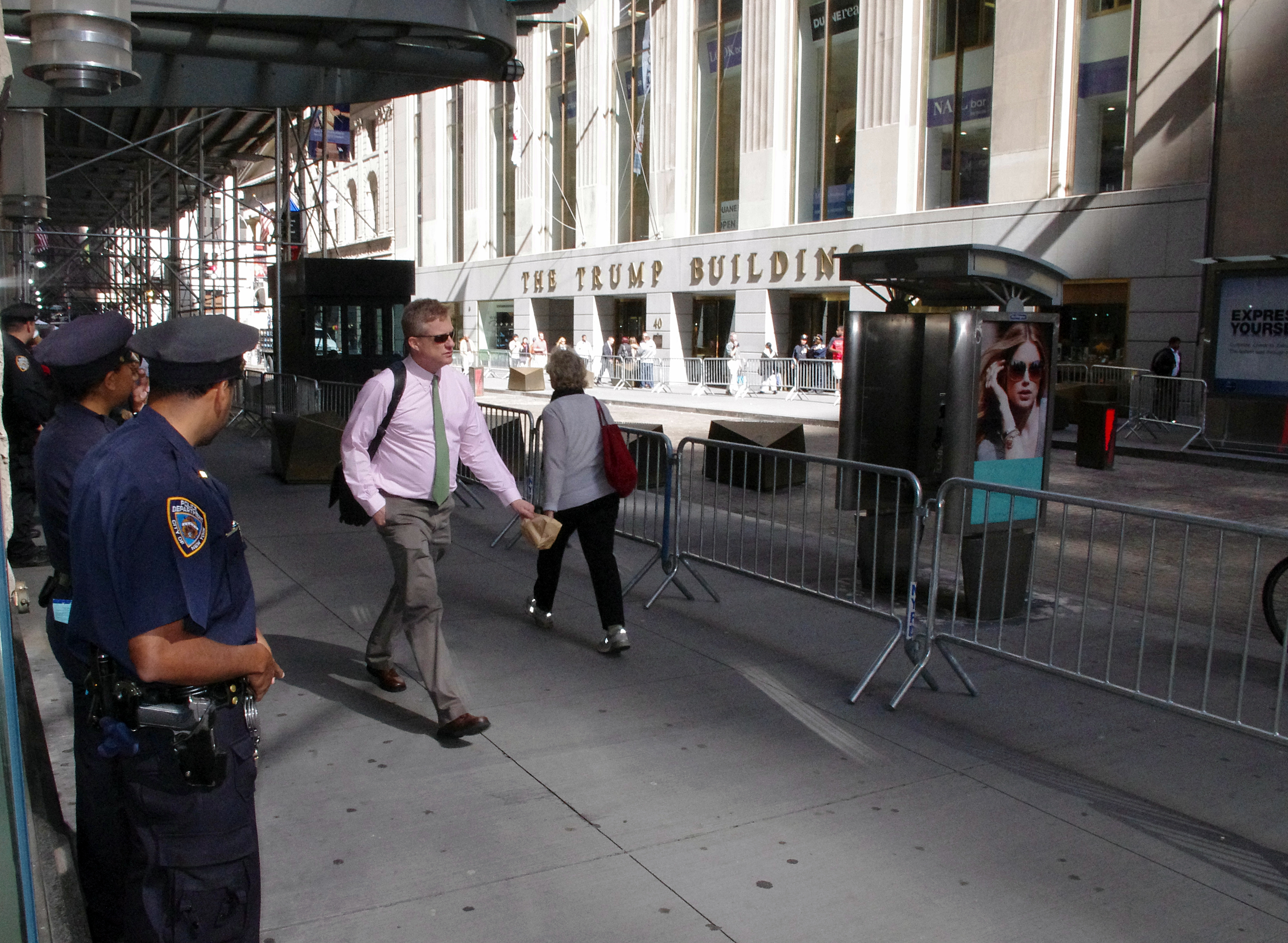 Day 3 of the protest Occupy Wall Street in Manhattan's Zuccotti Park.